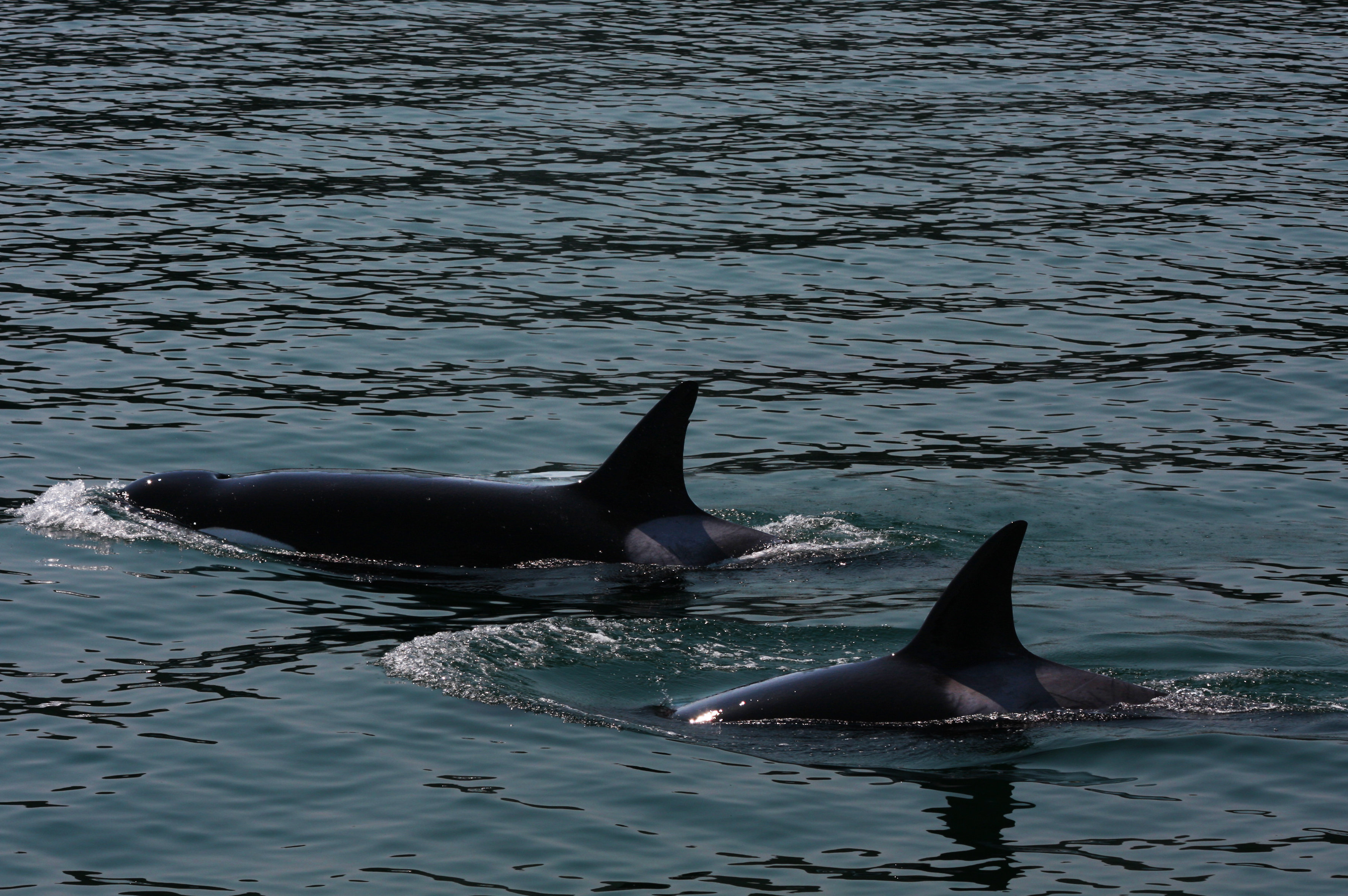 In the Pacific Northwest there are three types of killer whales: resident. transient, and offshore. Transient orcas are rarely observed. They move quickly through an area feeding on seals and other marine mammals. (Resident orcas feed on fish). Transient orcas travel in small groups of less than seven. This was a group of three transient females; three is a very typical number for transients. Individuals fortunate enough to observe orcas in the wild usually see residents, which have a predictable range, making them far easier to find. Little is known about offshore orcas.